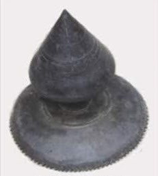 This is an ancient Varun(Tupi) Japi used during the rule of Chutia kings. kept in the Gharmora Satra.